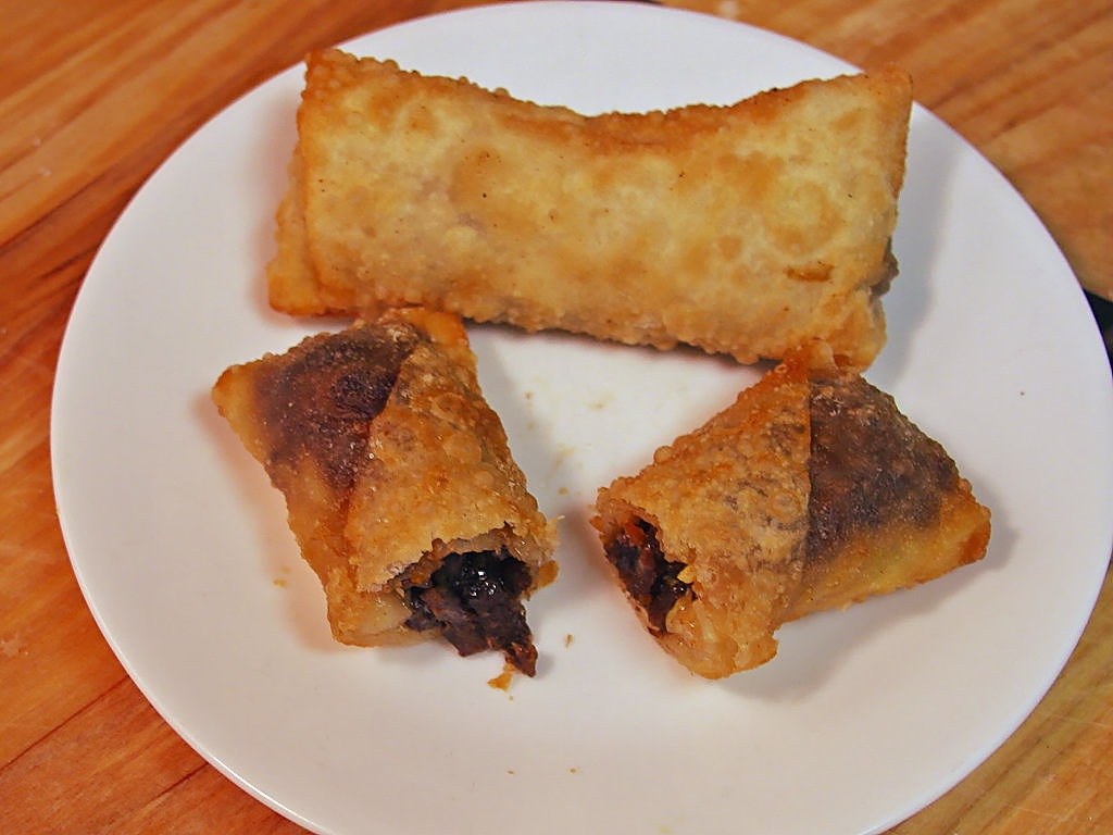 Manderin beef eggrolls. Camera: Canon D60, Digital, Lens: Canon 28-135mm IS, f3.5, 1/10 sec, ISO 100 From: License: This image is public domain. You may use this image for any purpose, including commercial. If you do use it, please let me know. I enjoy seeing what others have created with these photos.